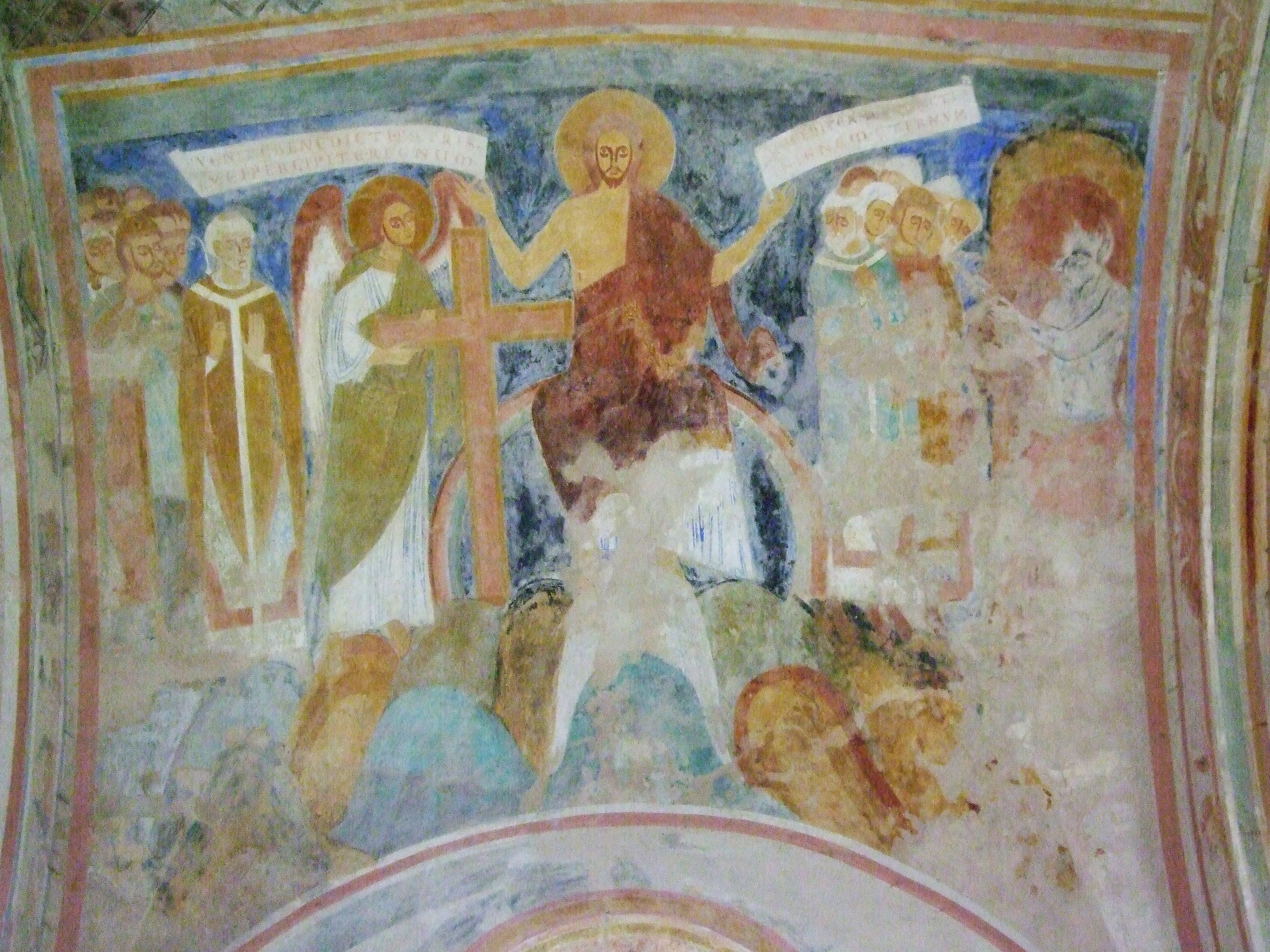 Idensen, Lower Saxony, Germany. church St. Sigwardus, ceiling fresco (12. century): Jesus Christ at the Last Judgement